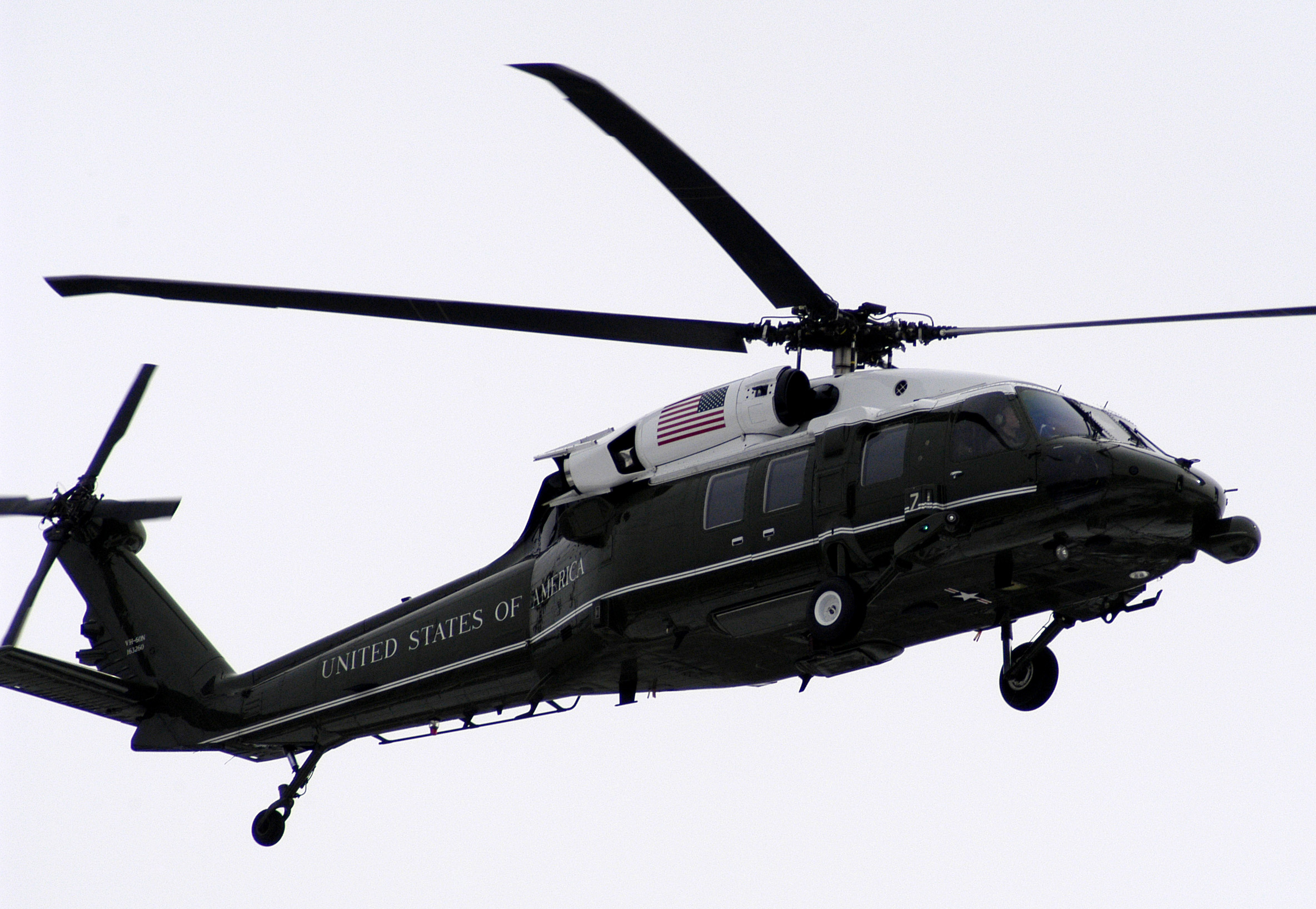 A VH-60N Whitehawk executive transport helicopter, assigned to Marine Helicopter Squadron One (HMX-1), flies over the Potomac River in Washington, D.C., en route to the White House. The VH-60N is a twin engine, all-weather helicopter that supports the executive transport mission for the President of the United States.